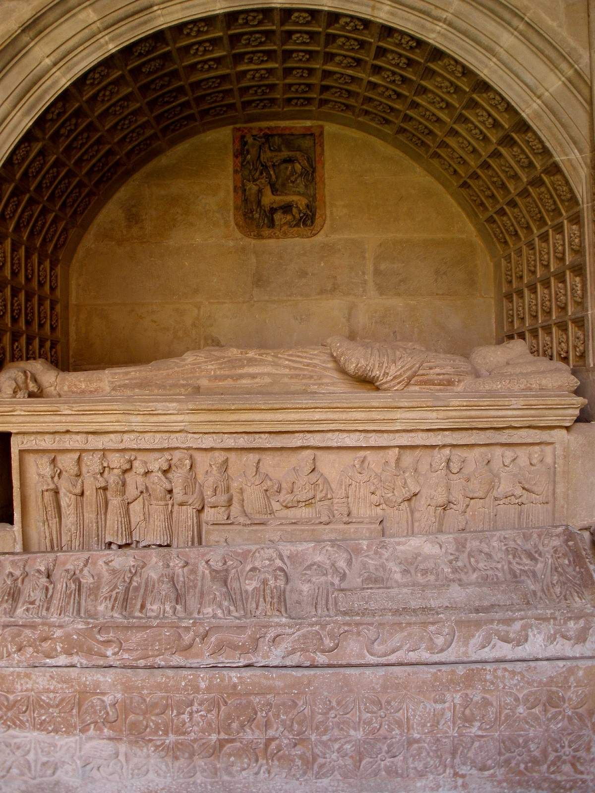 Claustro del Monasterio de Santa María la Real, Nájera (La Rioja, España). Sepulcro en arcosolio casetonado